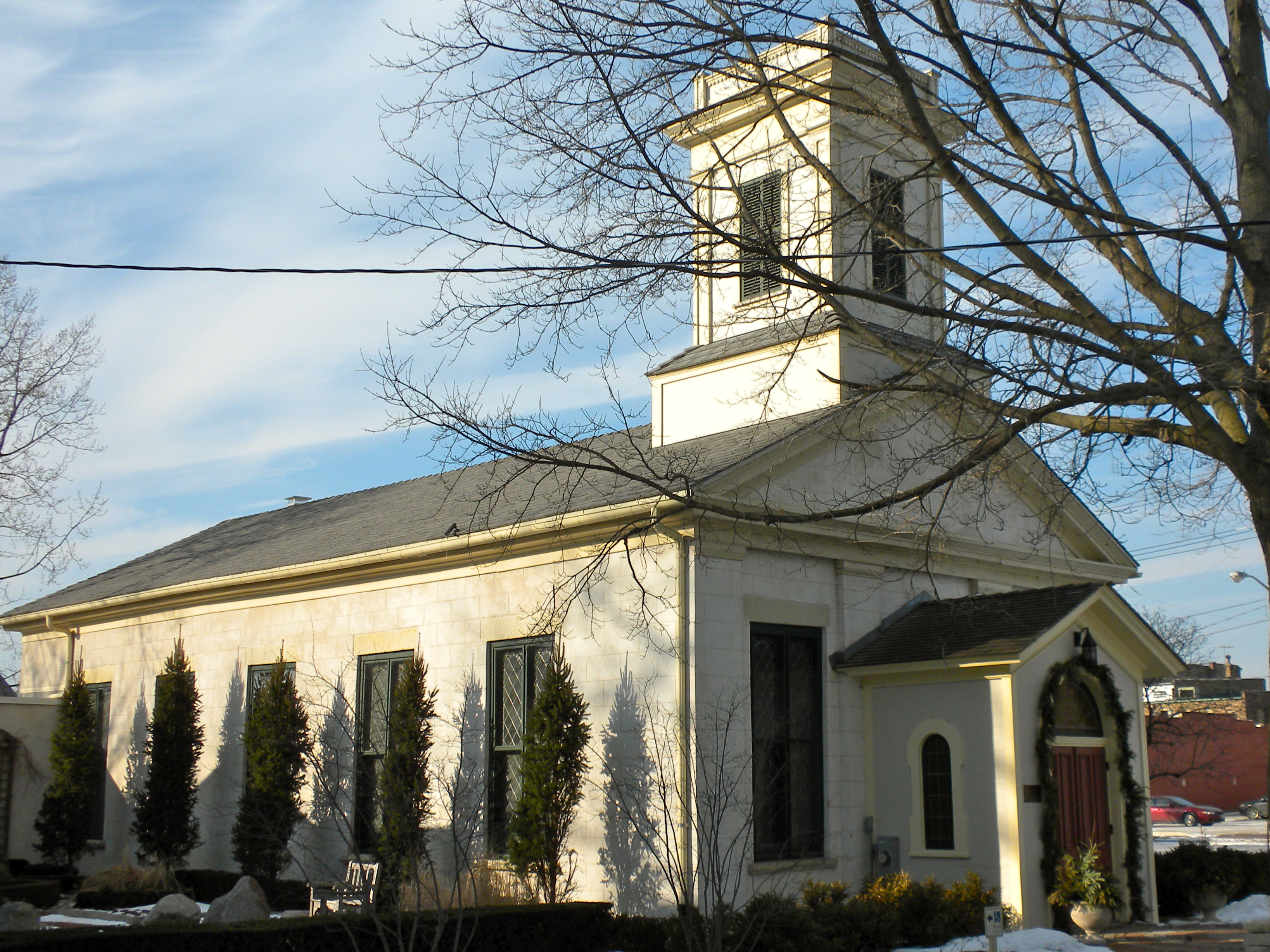 Geneva (Illinois) Unitarian Church, at 2nd and James, Geneva, Illinois. Part of the Central Geneva Historical District on the NRHP since September 10, 1979. HD is roughly bounded by Fox River, South, 6th and W. State Sts. In Kane County